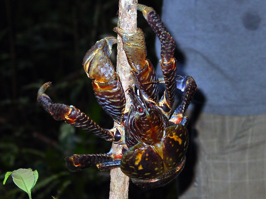 A coconut crab (Birgus latro) on Niue in the South Pacific